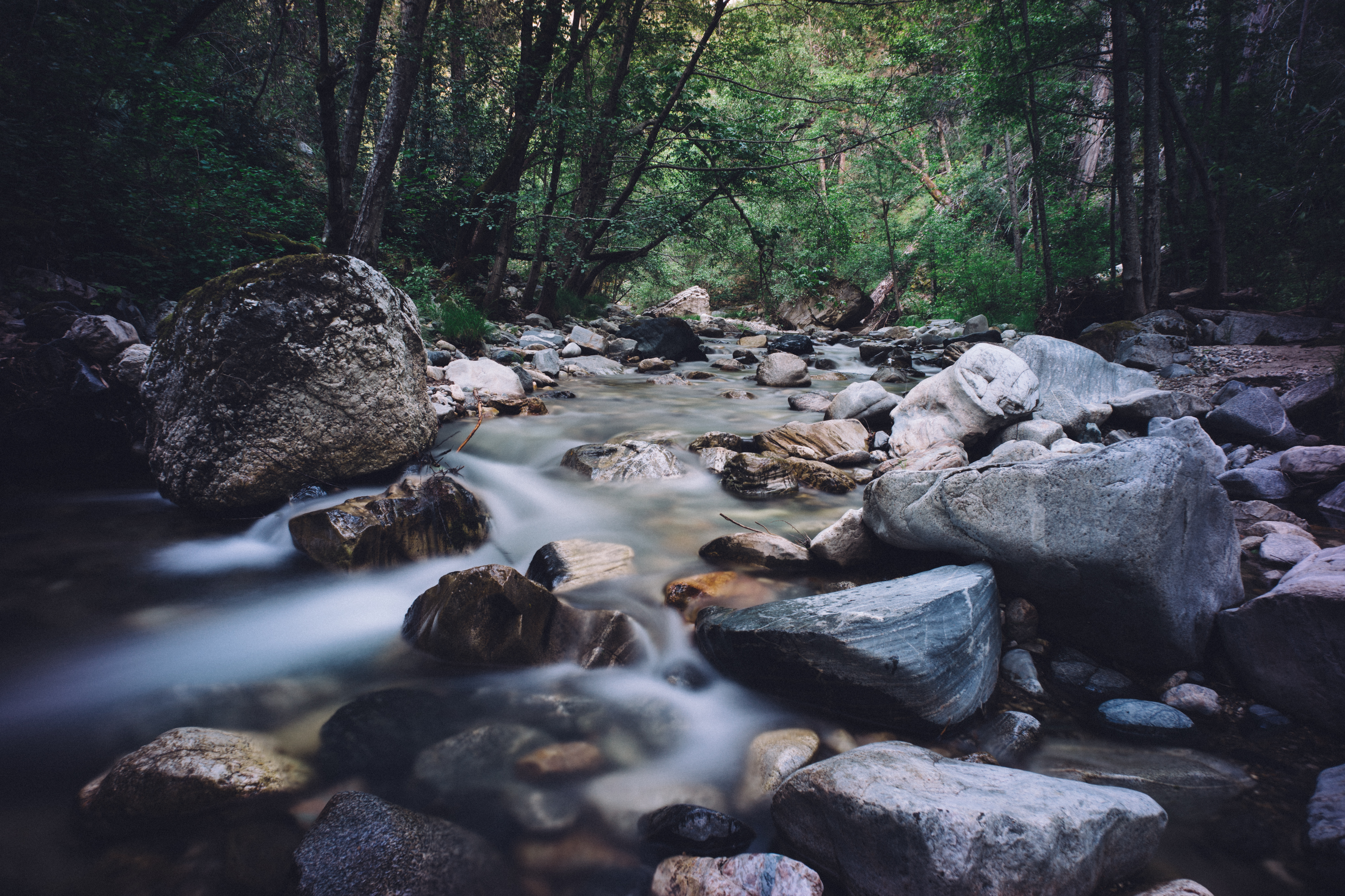 Sykes Hot Springs, United States